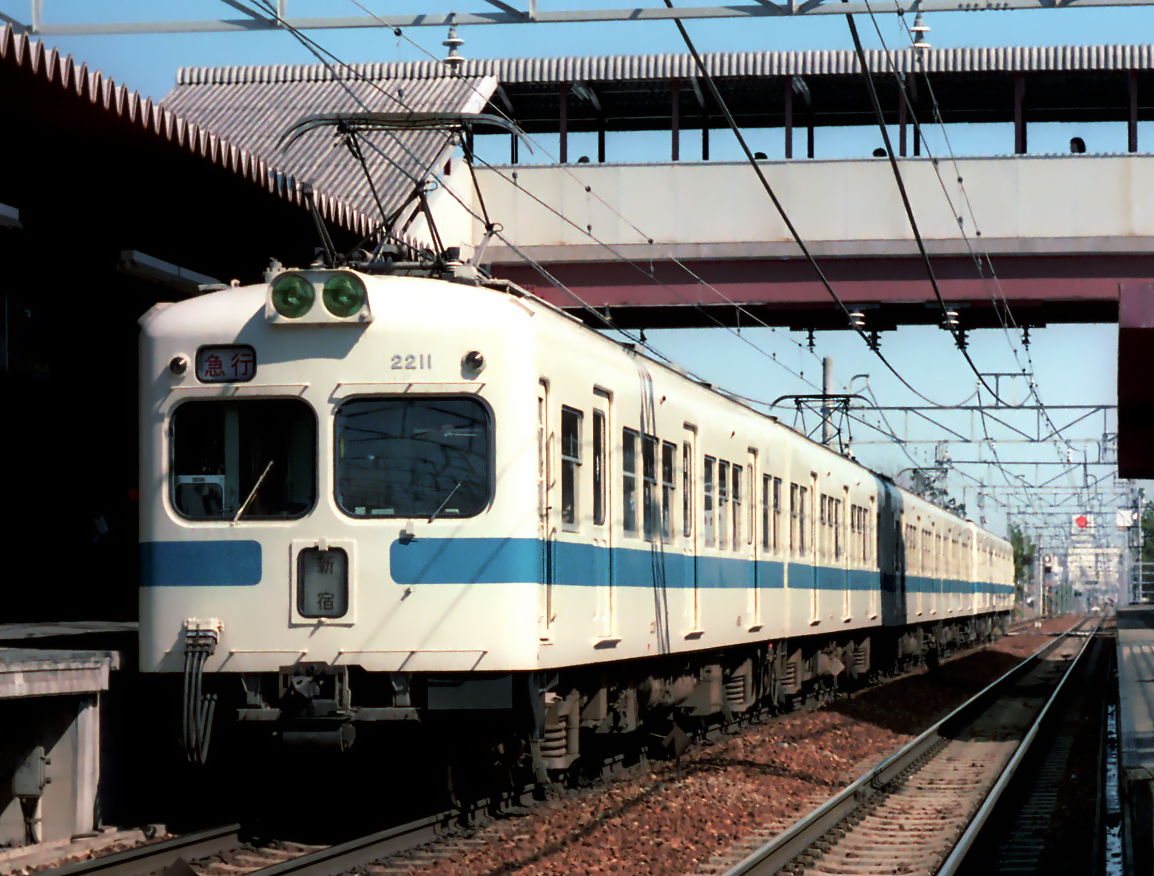 Odakyu Electric Railway 2200 Series EMU on the express service at Honkugenuma station.